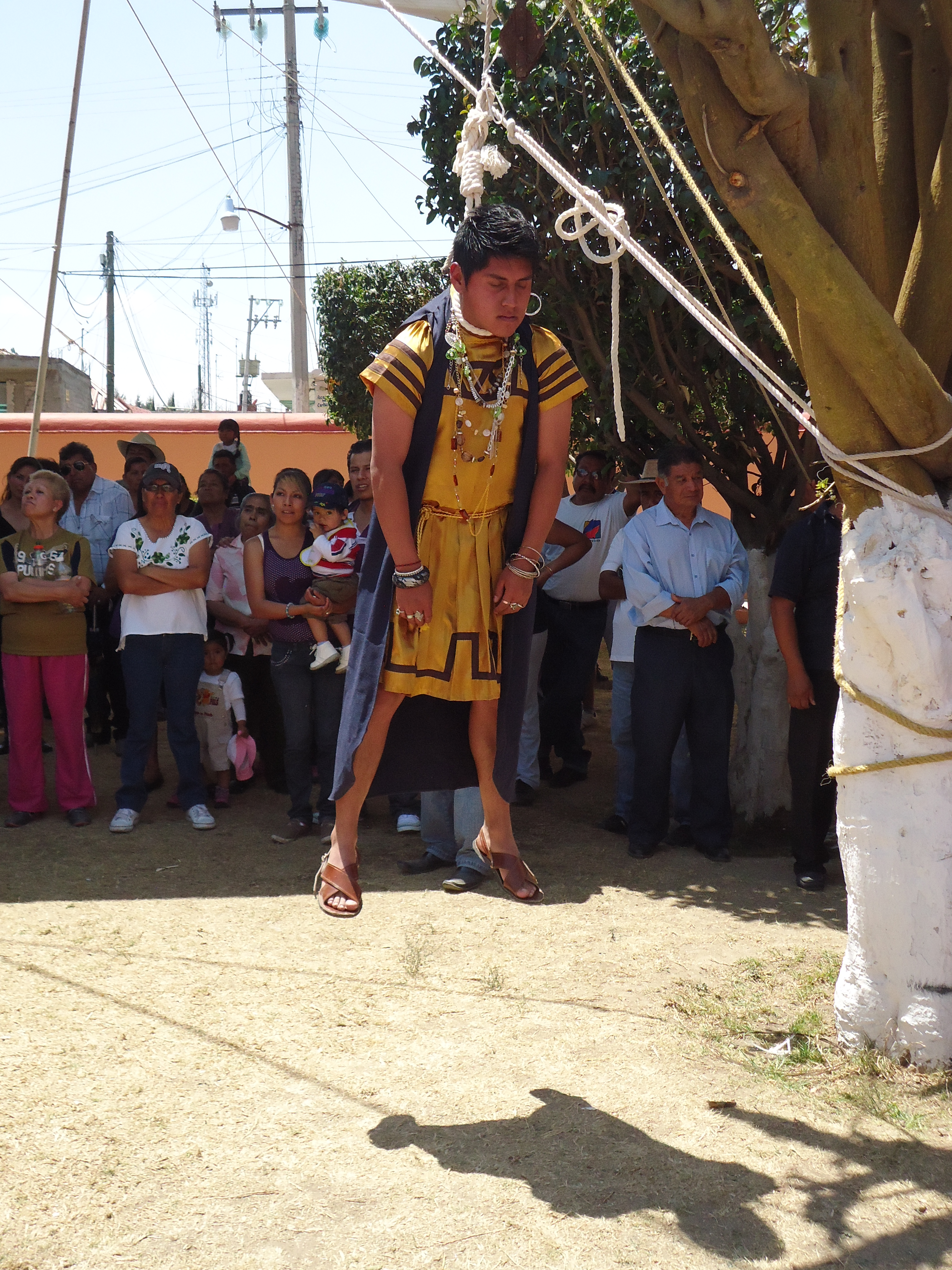 Judas hangs from a tree paying for his sins in San Simon Texcoco